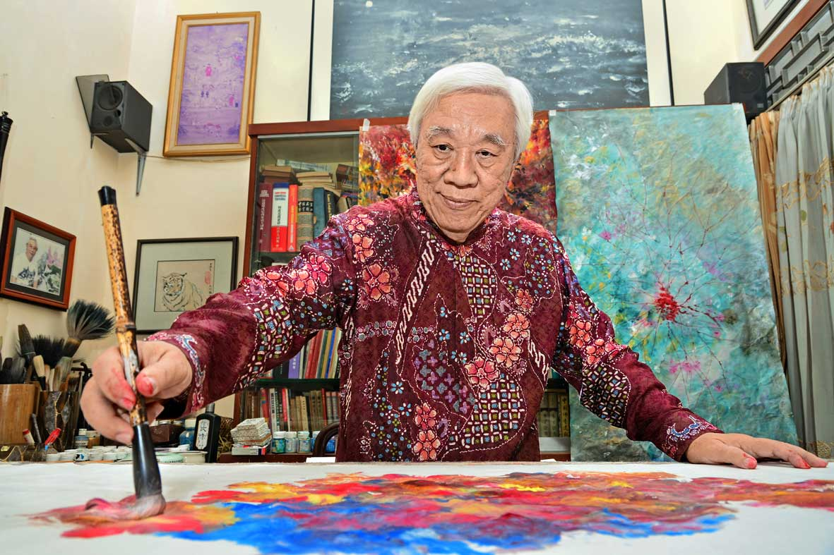 Sidik paint in his house taken from Kabare Magazine Edition 166 XIII April 2016